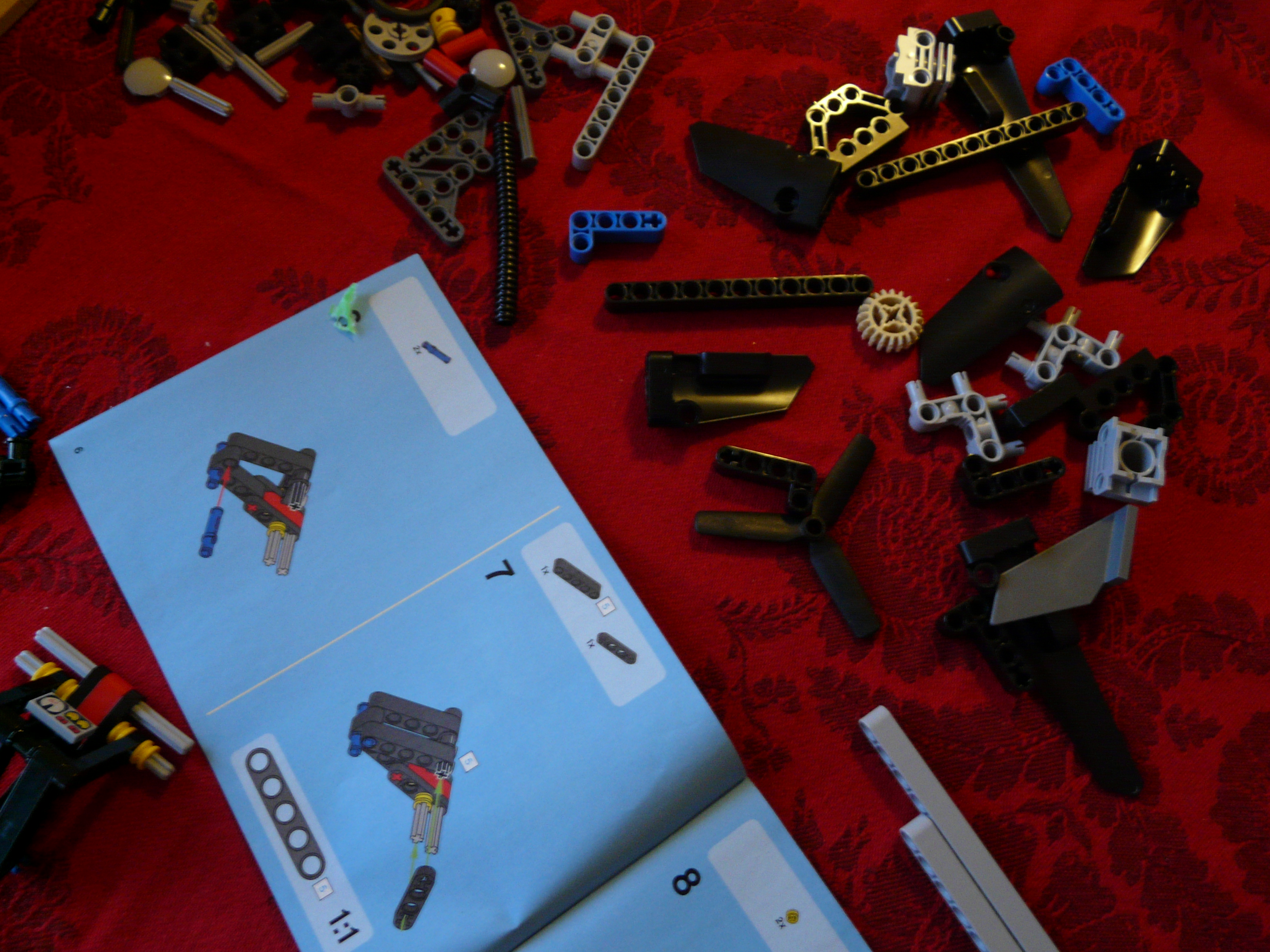 Lego technic instructions.